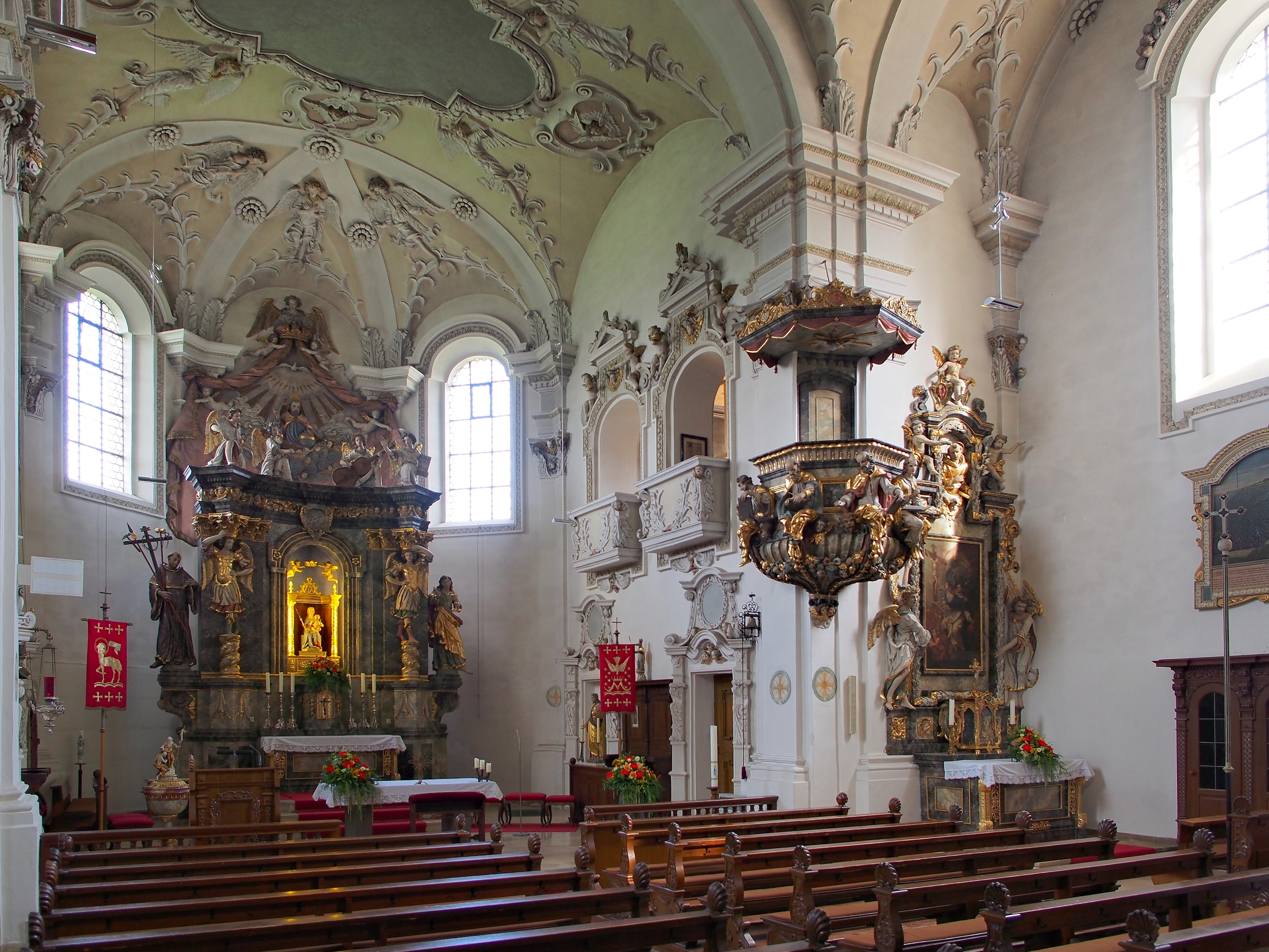 Inside of St Mary pilgrimage church, Rechberg, Württemberg, Germany